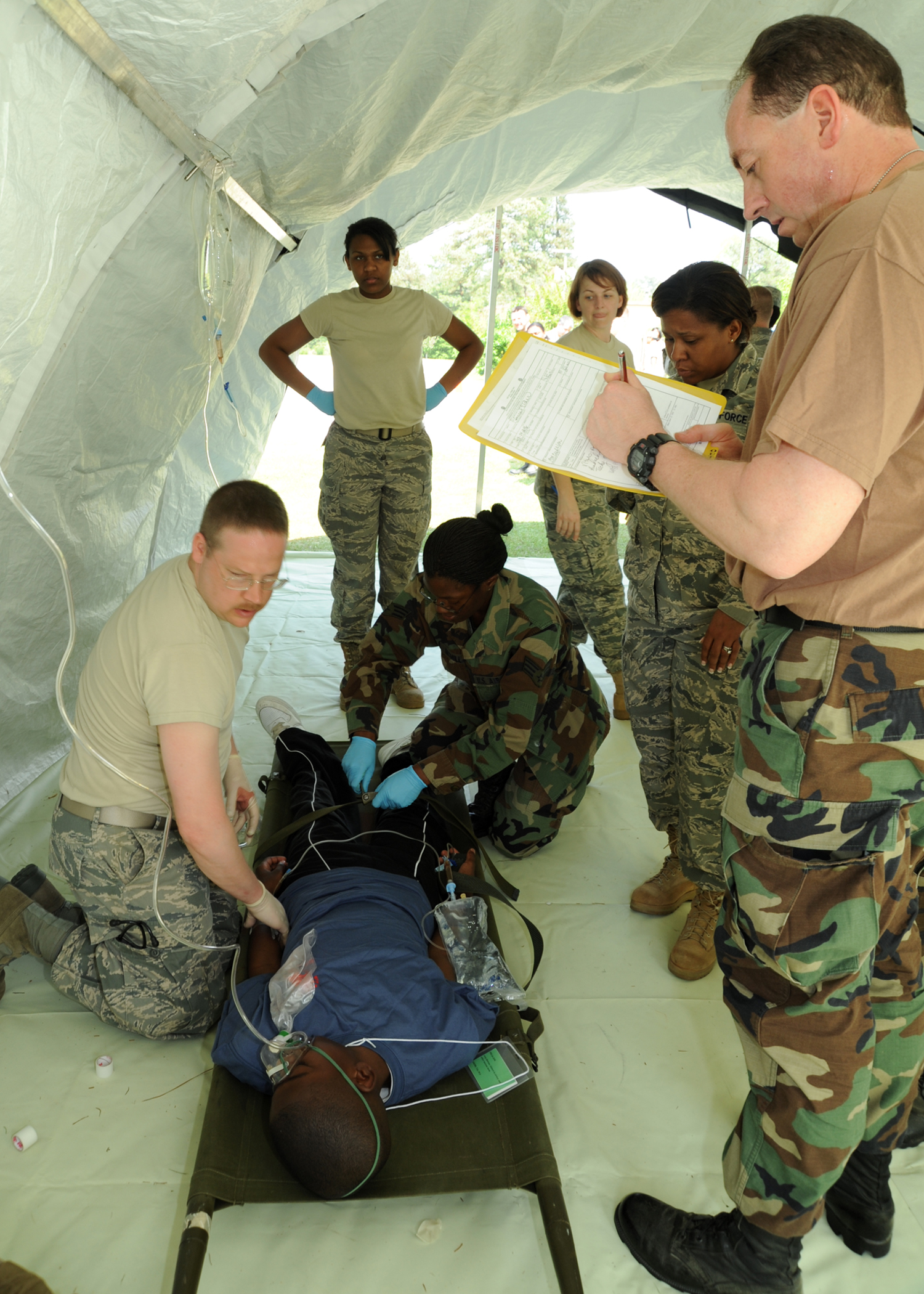 A medical team from the 440th Airlift Wing Medical Squadron responds to a head trauma victim during a mass casualty exercise at Pope Air Force Base, N.C., April 17, 2010. The medical team was responding to Cadet Jerrel Elder from the Fayetteville based Civil Air Patrol Composite Squadron who volunteered to act out scenarios that would enable them to practice their readiness skills. Elder saw the opportunity to volunteer for this exercise as a great opportunity to explore the career field he is interested in someday perusing.